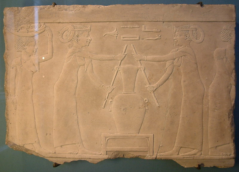 The making of lily perfume, fragment from the decoration of a tomb